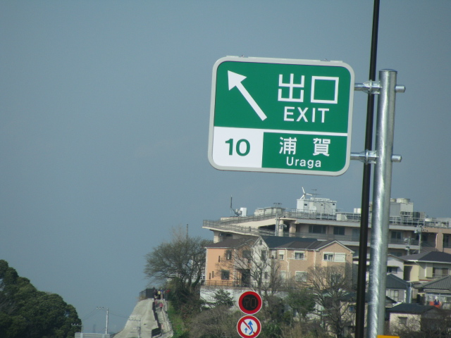 Uraga Interchange - Photographed while approaching the interchange on March 30, 2009